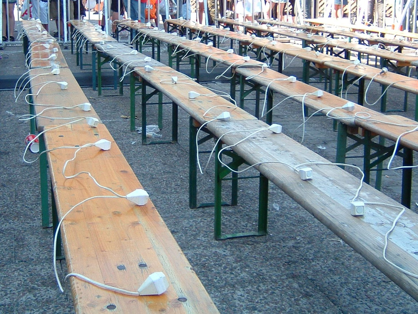 Mentometer buttons (for vote-counting) in an outdoor radio show (Sommartoppen) ready for use in Sundsvall, Sweden